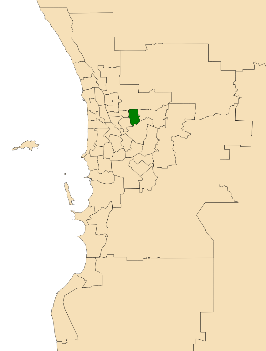 Location of the electoral district of Bassendean in the Perth metropolitan area, Western Australia as of the 2017 WA state election.